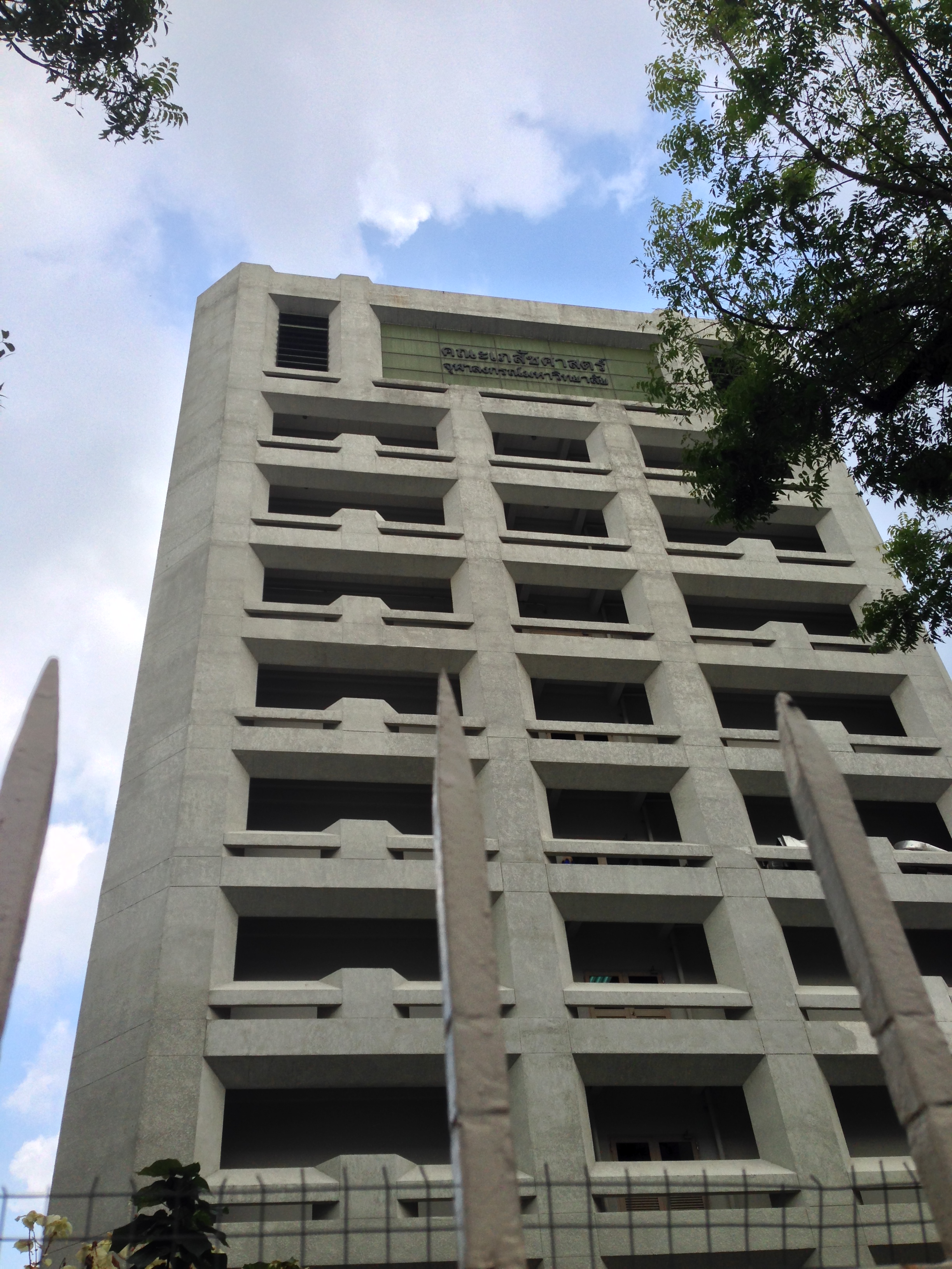 Building of Faculty of Pharmaceutical, Chulalongkorn University